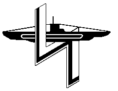 German submarine U-156 (1941)